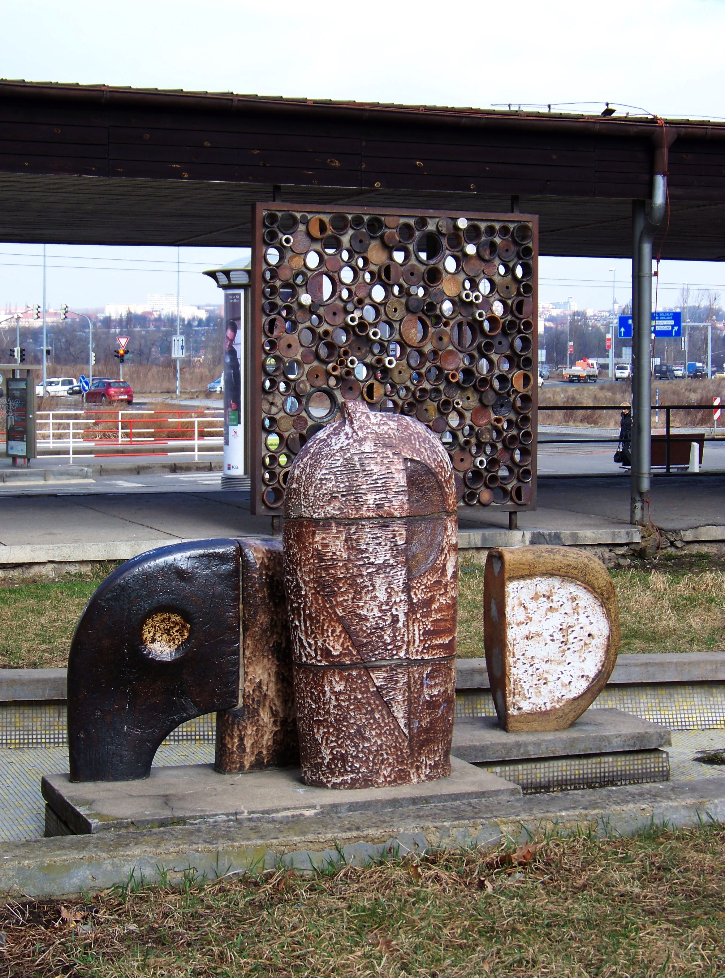 Prague-Karlín, the Czech Republic. Invalidovna Housing Estate, sculptures at the shopping centre.